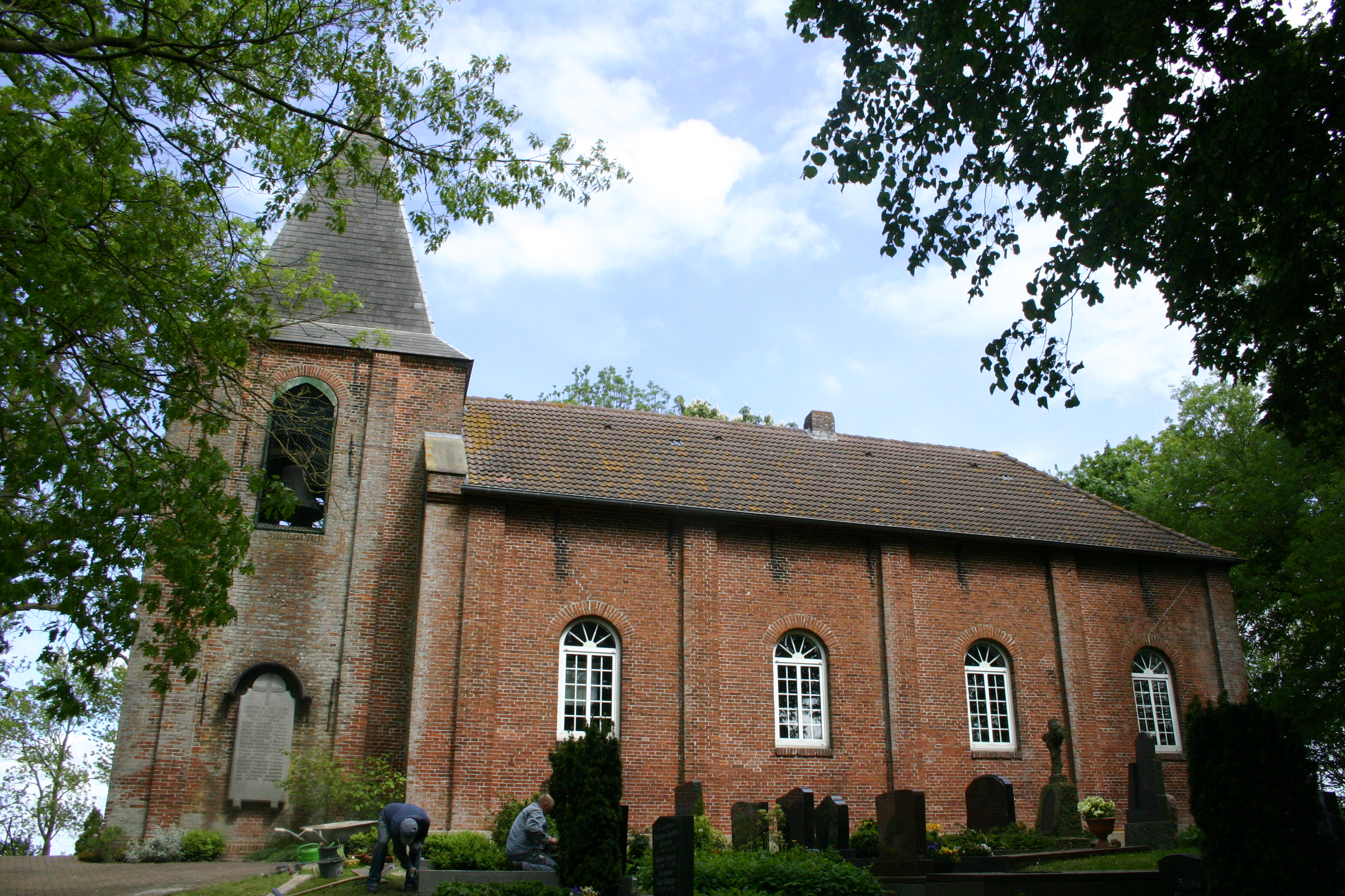 Historic church in Grotegaste, district of Leer, East Frisia, Germany